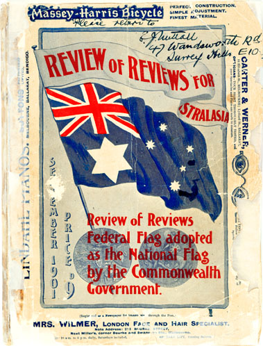 The edition of the Review of Reviews front cover signed by Egbert Nuttall, after the winning designers of the 1901 Federal Flag design competition were announced.